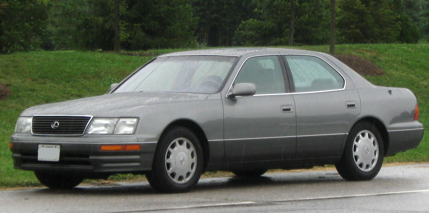 1995-1996 Lexus LS400 photographed in College Park, Maryland, USA.